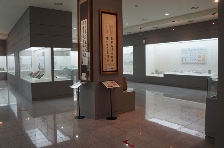 Jukjeon, Seokjuseon Museum Exhibits views